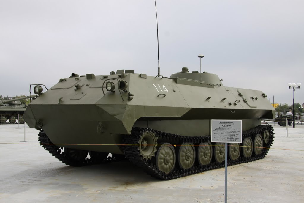 Verkhnyaya Pyshma Tank Museum 2011